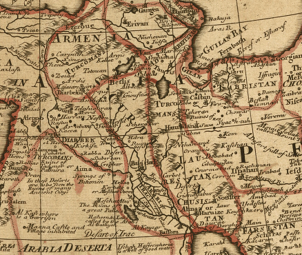 Map of Ancient Kurdistan